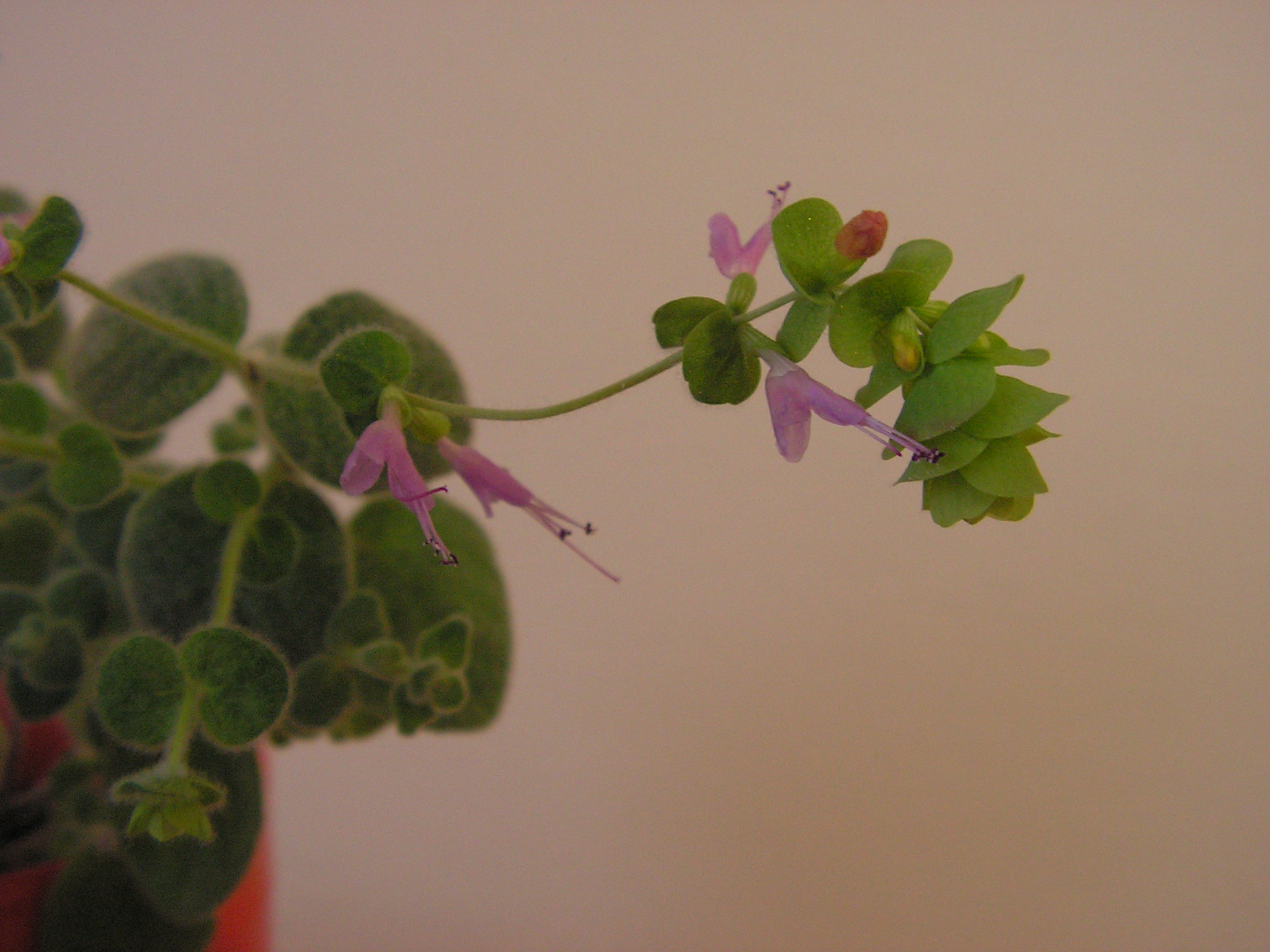 Picture of the plant Origanum dictamnus (Cretan dittany).